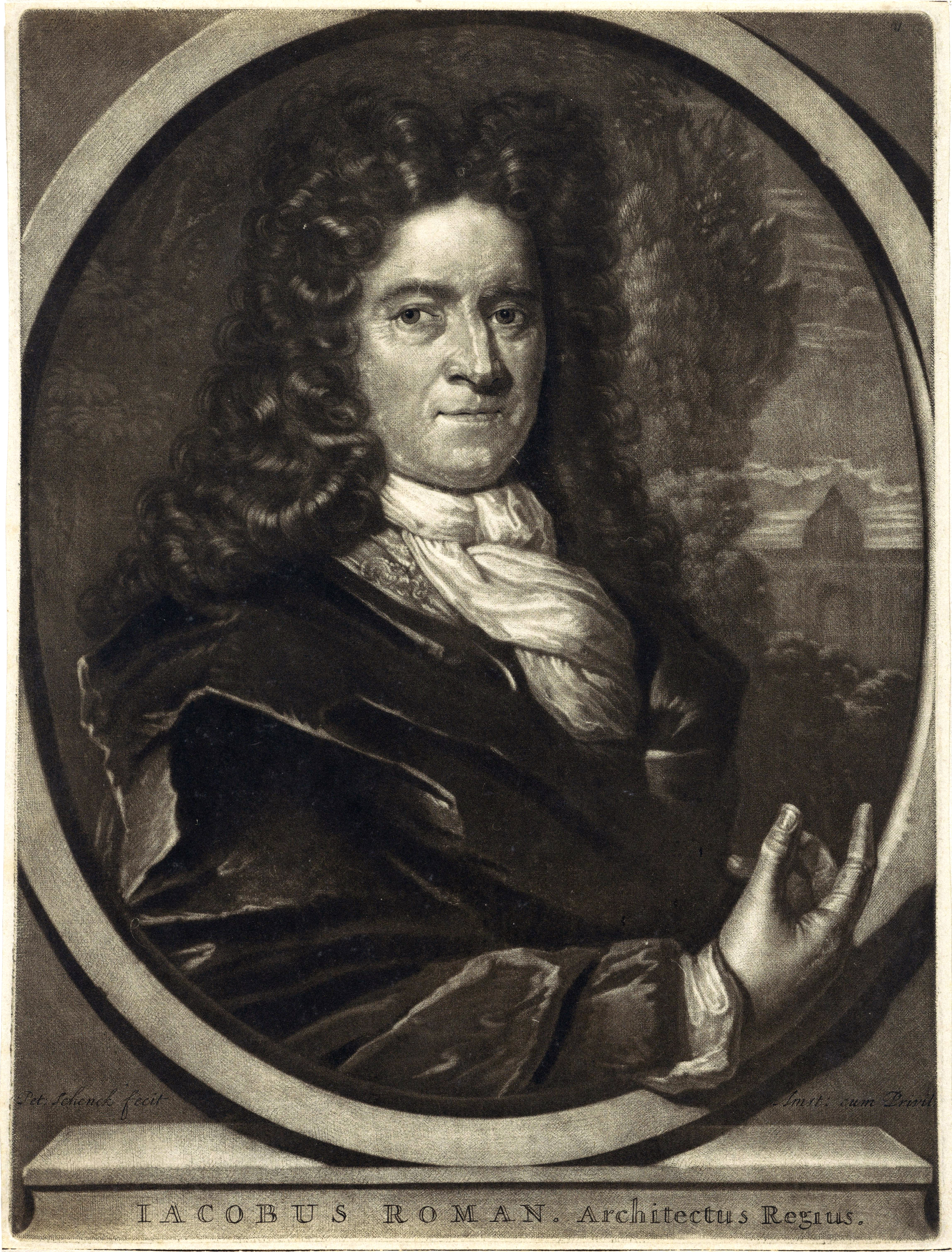 Jacob Roman (1640-1716), sculptor and architect from The Hague in the Netherlands.